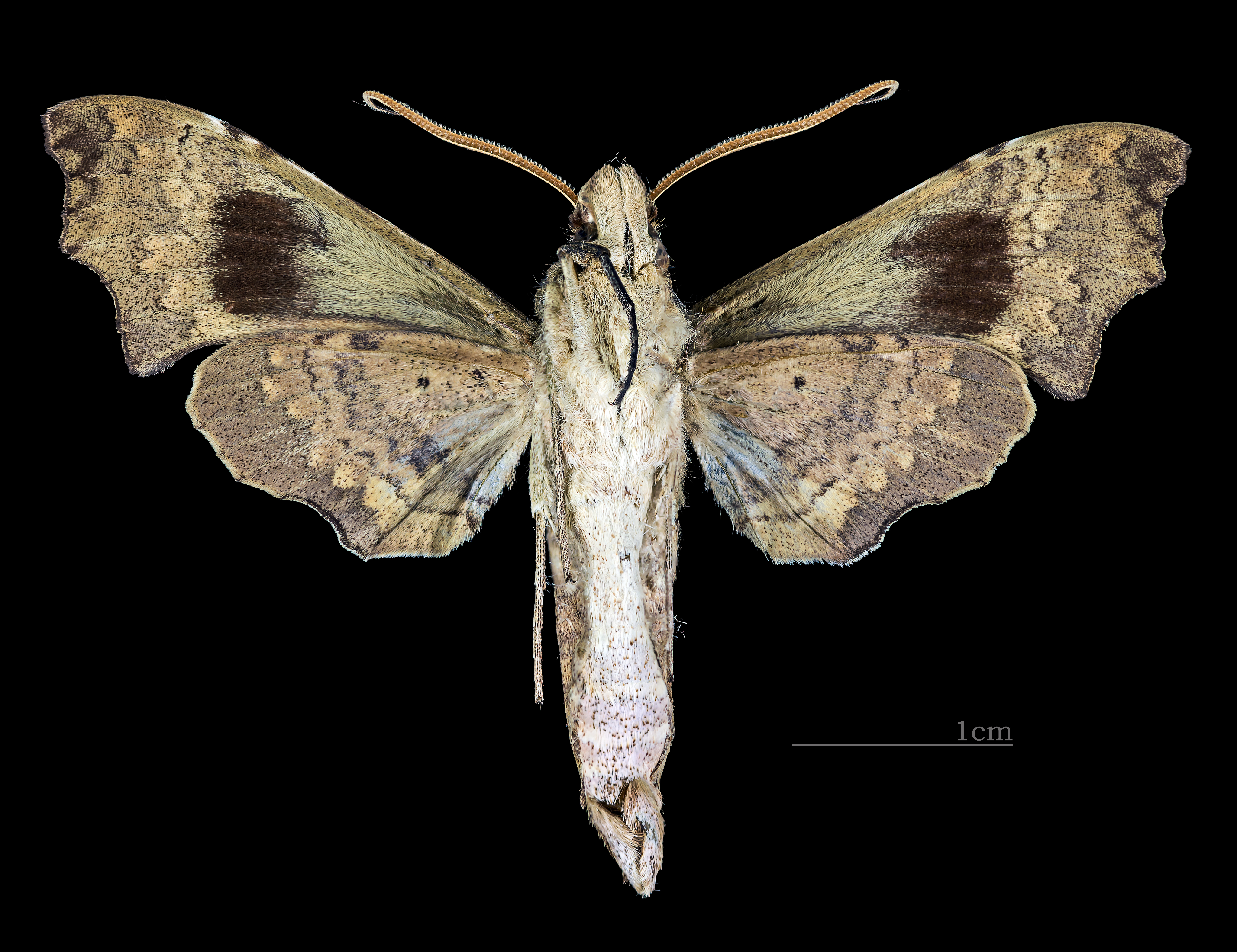 Aleuron neglectum - △ Ventral side Collection of the Mathematician Laurent Schwartz